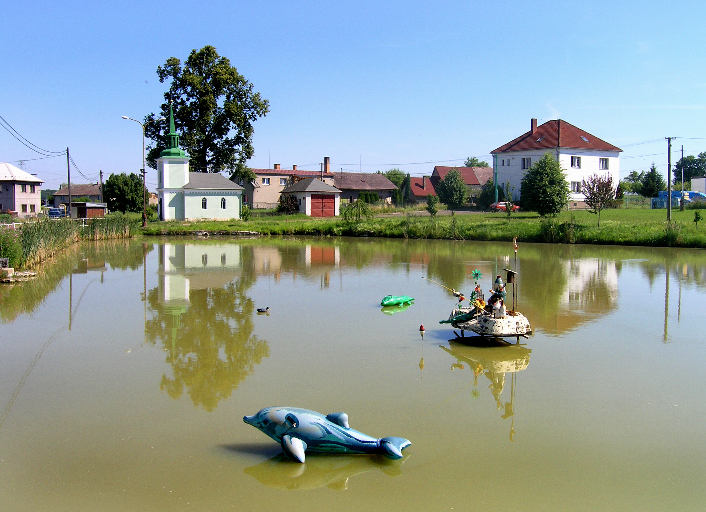 Common pond in Bítouchov, Czech Republic